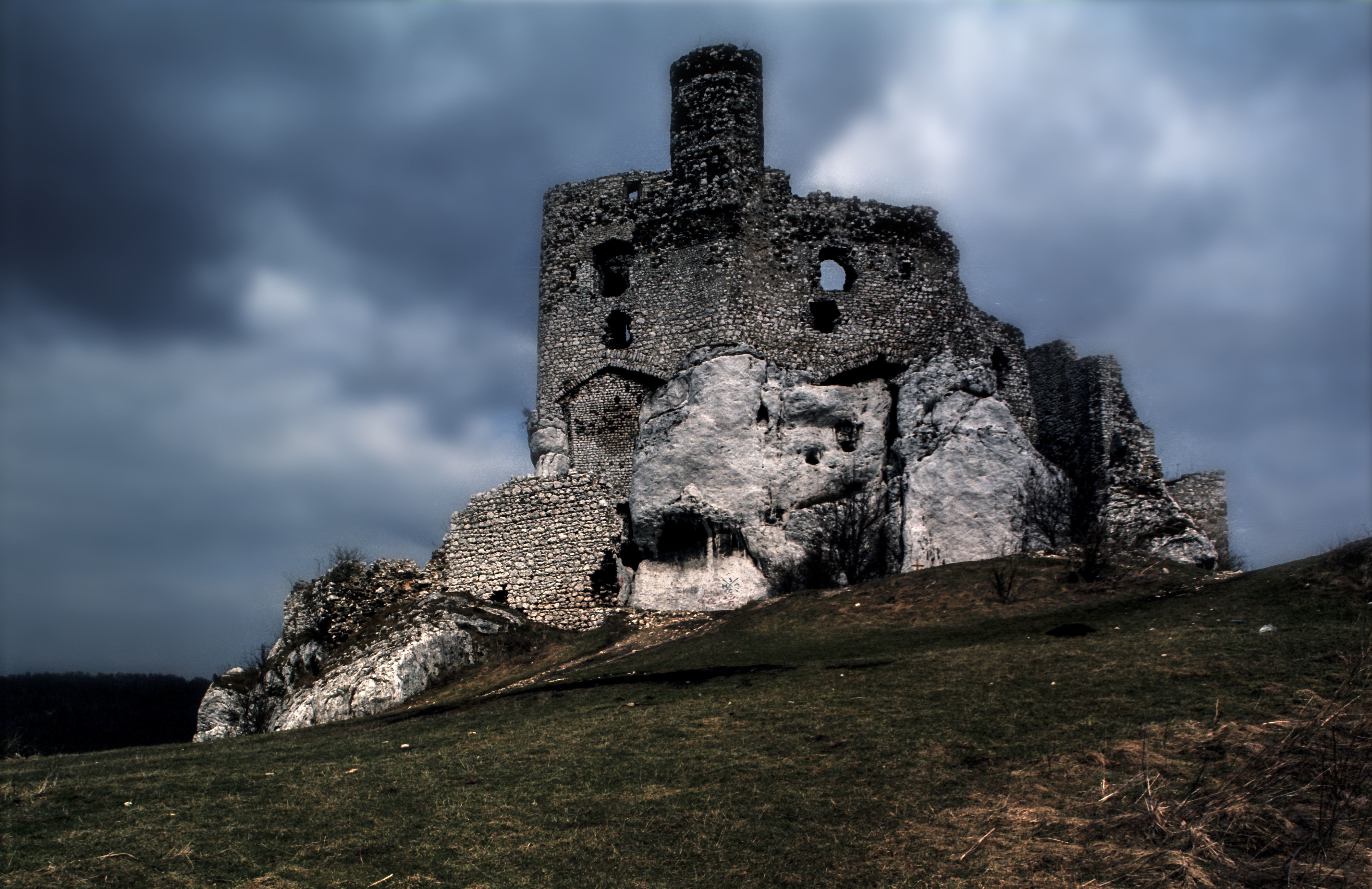 Poland, Jura, Mirow Castle